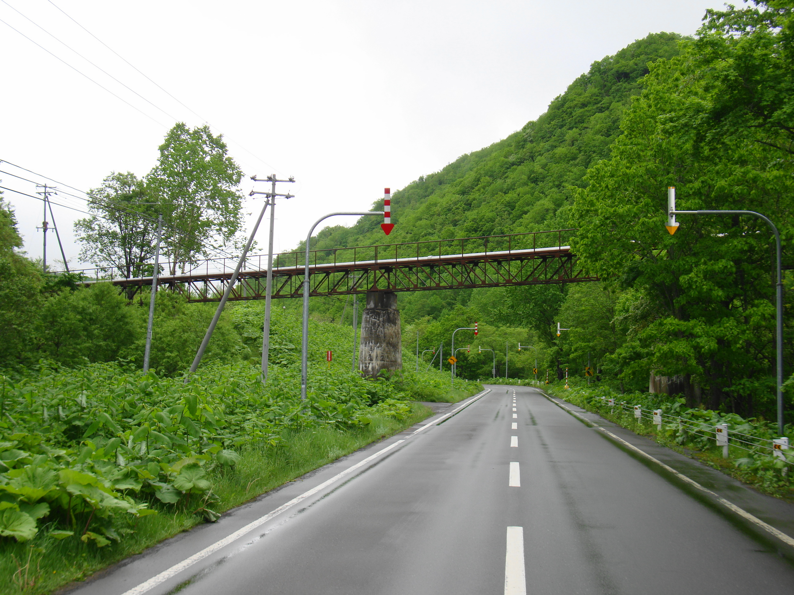 The #5 bridge of Komon Kido (Komon Light Rail) over the Hokkaido Prefectural Road Route 305 in Kōnomai, Mombetsu City, Hokkaidō, Japan